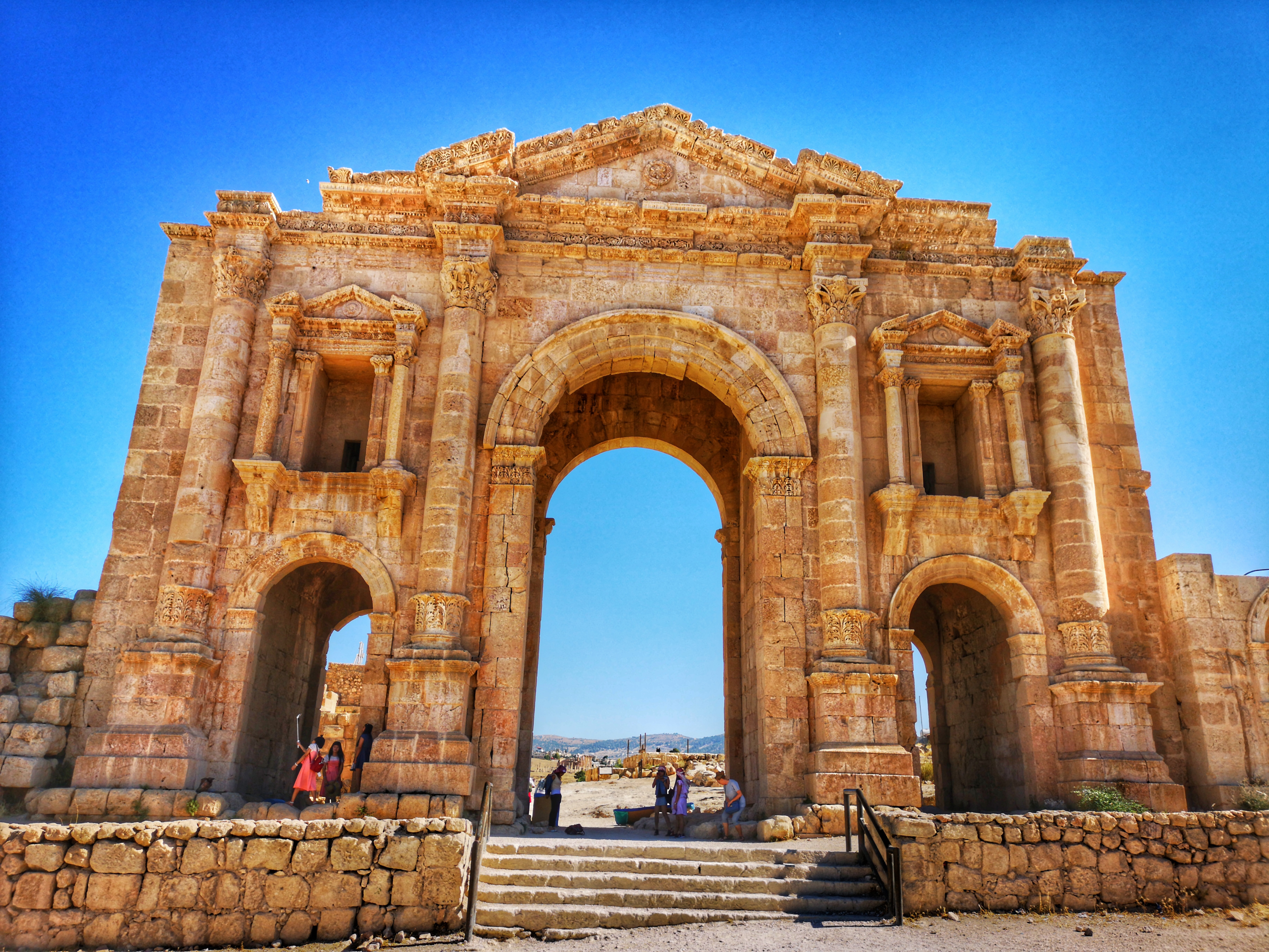 In 129 AD to commemorate the visit of Hadrian to Jerash this arch was built